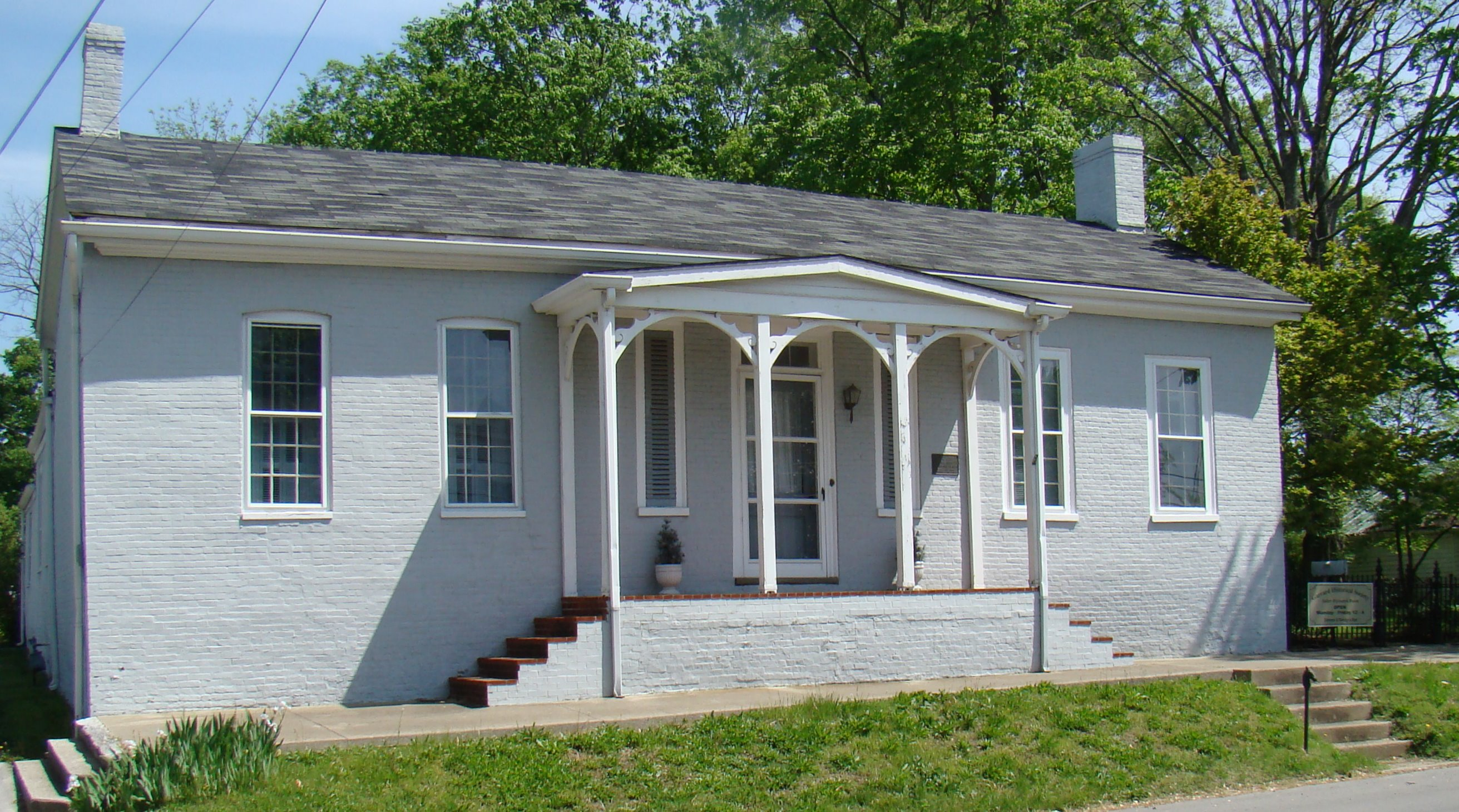 Jennings-Salter House, a historic property in Lancaster, Kentucky. Currently home to the Garrard County Historical Society.